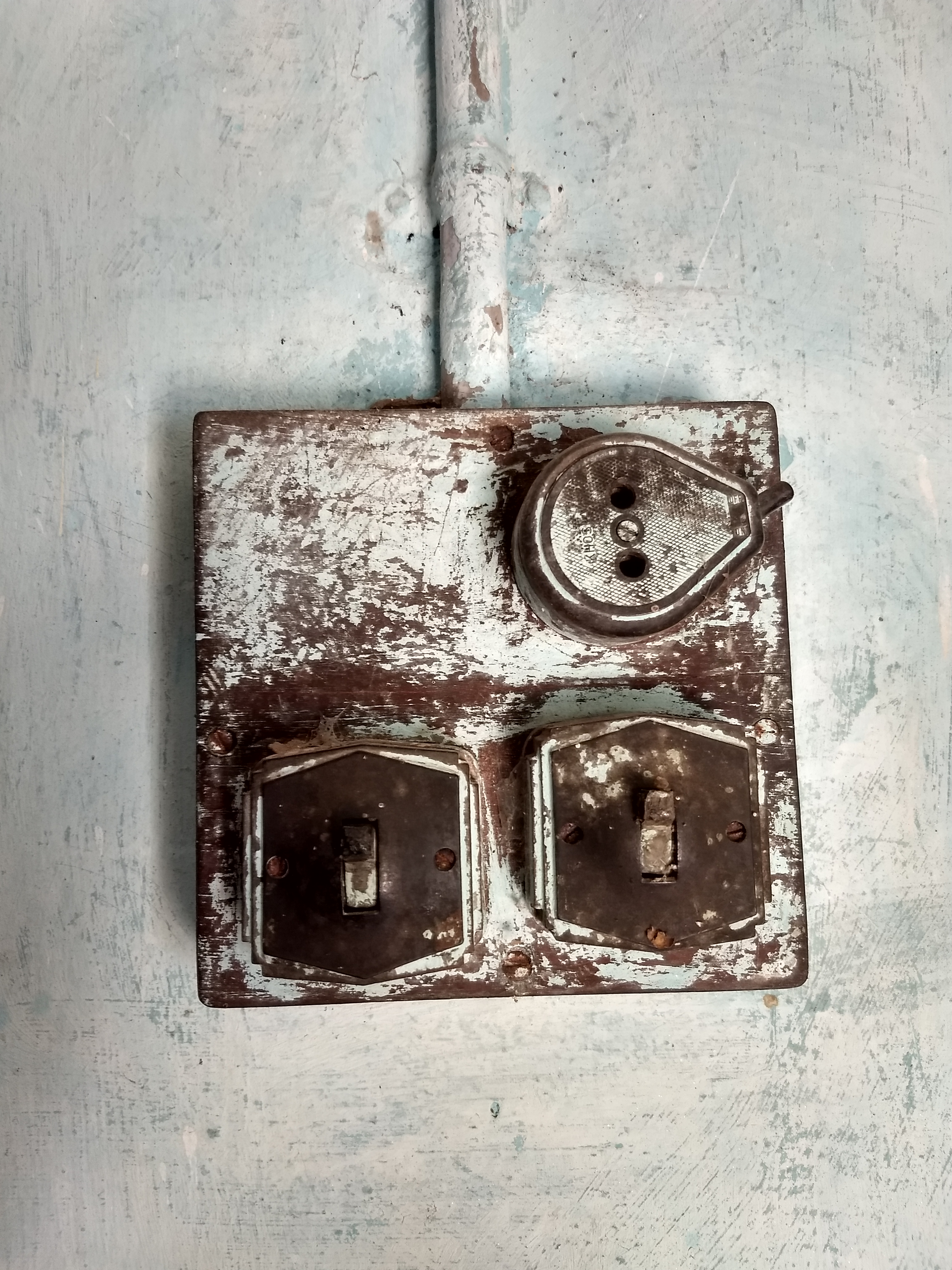 Old Bakelit light tumbler switches and socket from Tamil Nadu